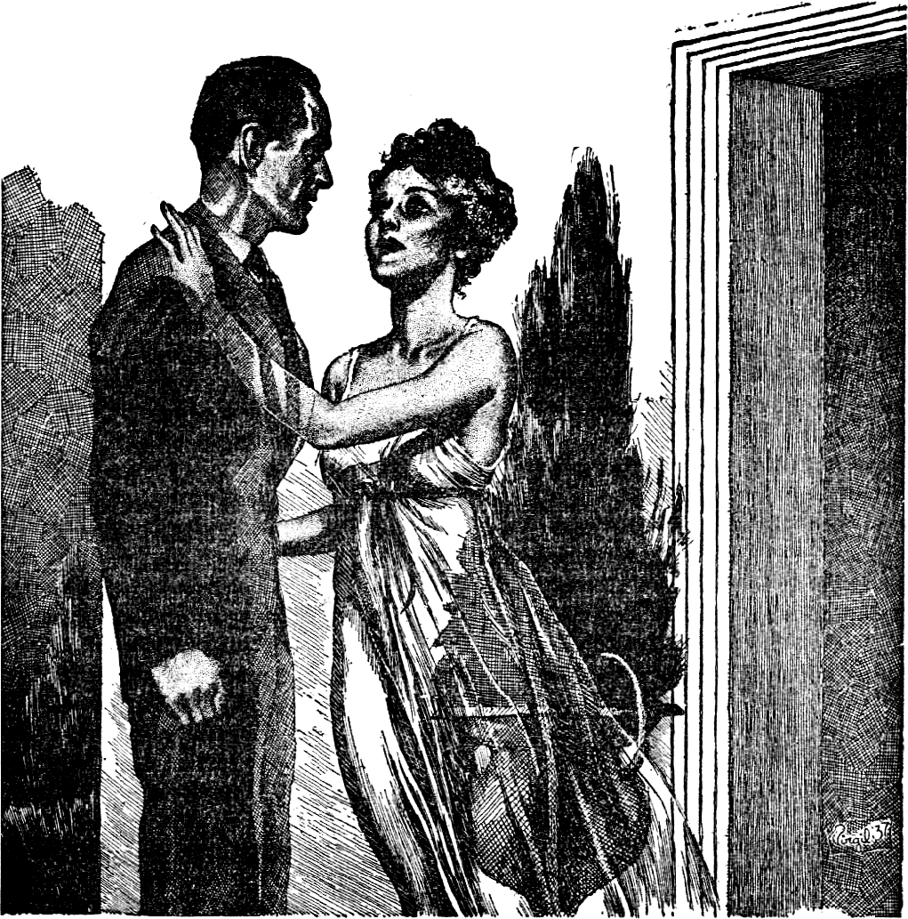 Main illustration for the story "Pledged to the Dead". Internal illustration from the pulp magazine Weird Tales (October 1937, vol. 30, no. 4, page 397).